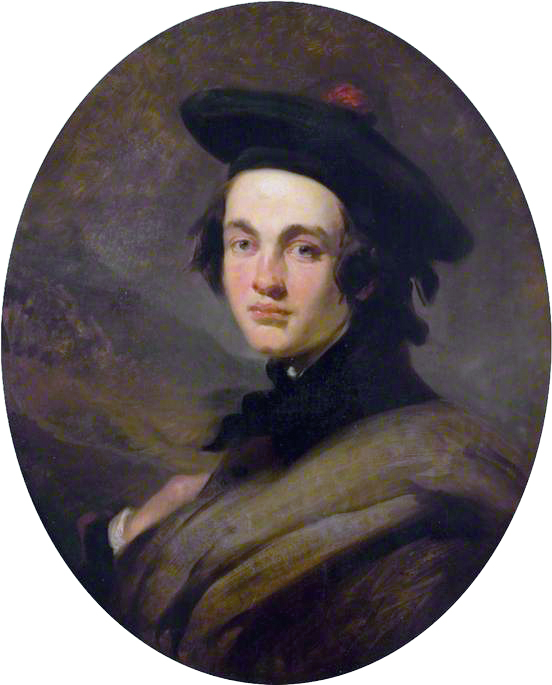 Self portrait when a young man oil on canvas 74.9 x 62.2 cm circa 1840